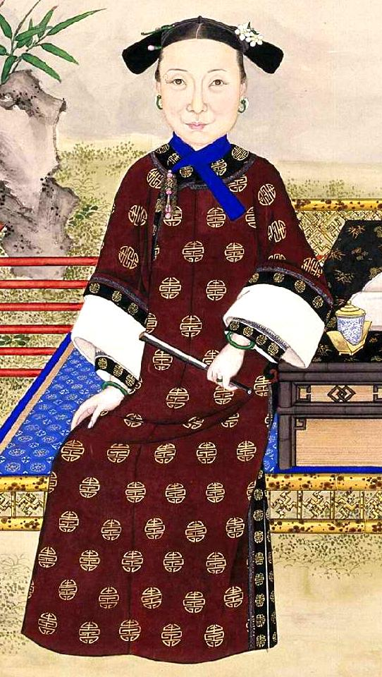 Imperial portrait of Empress Dowager Cixi of China